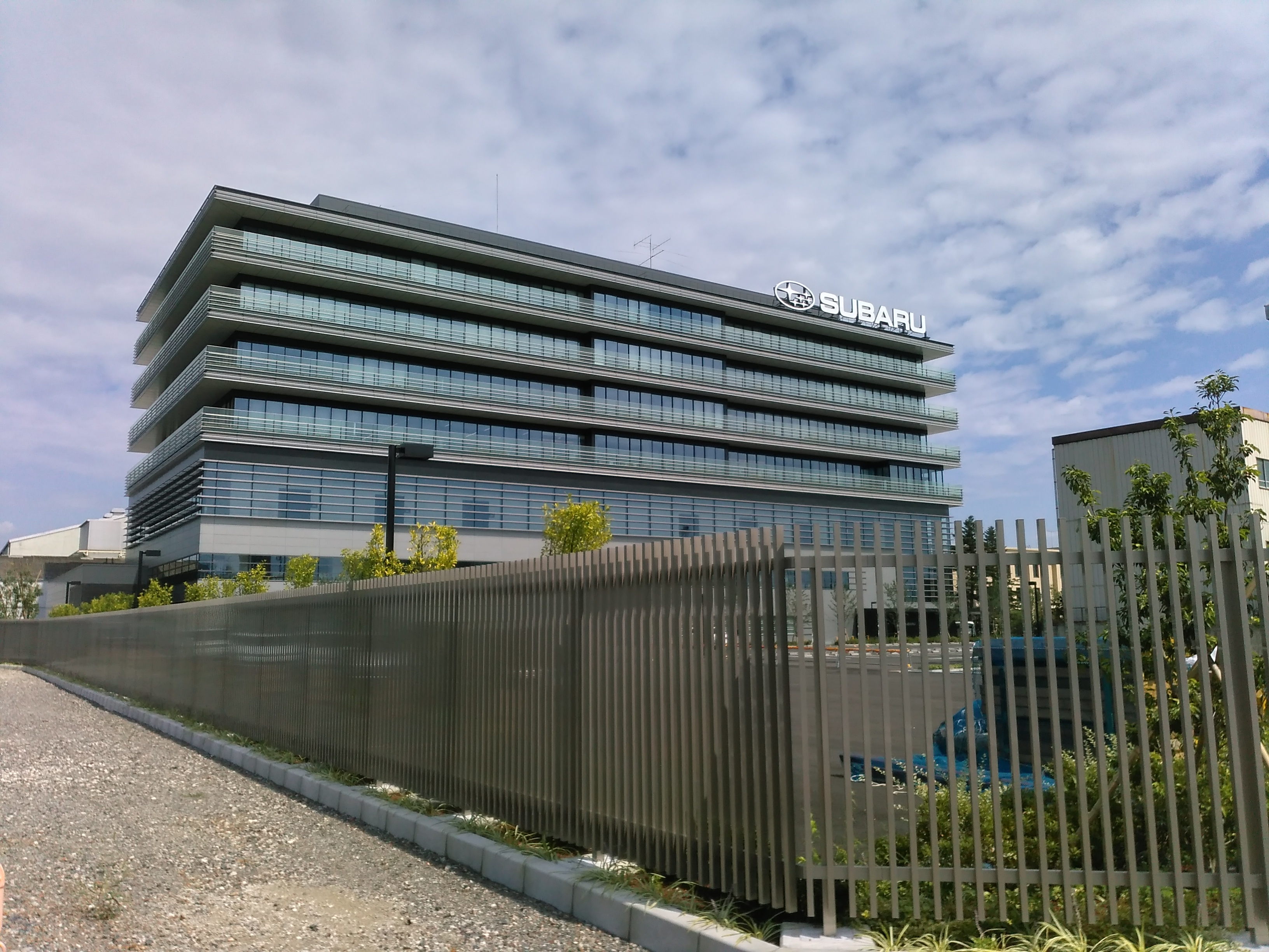 West Building of SUBARU Gunma Main Plant in Ota, Gunma, Japan.